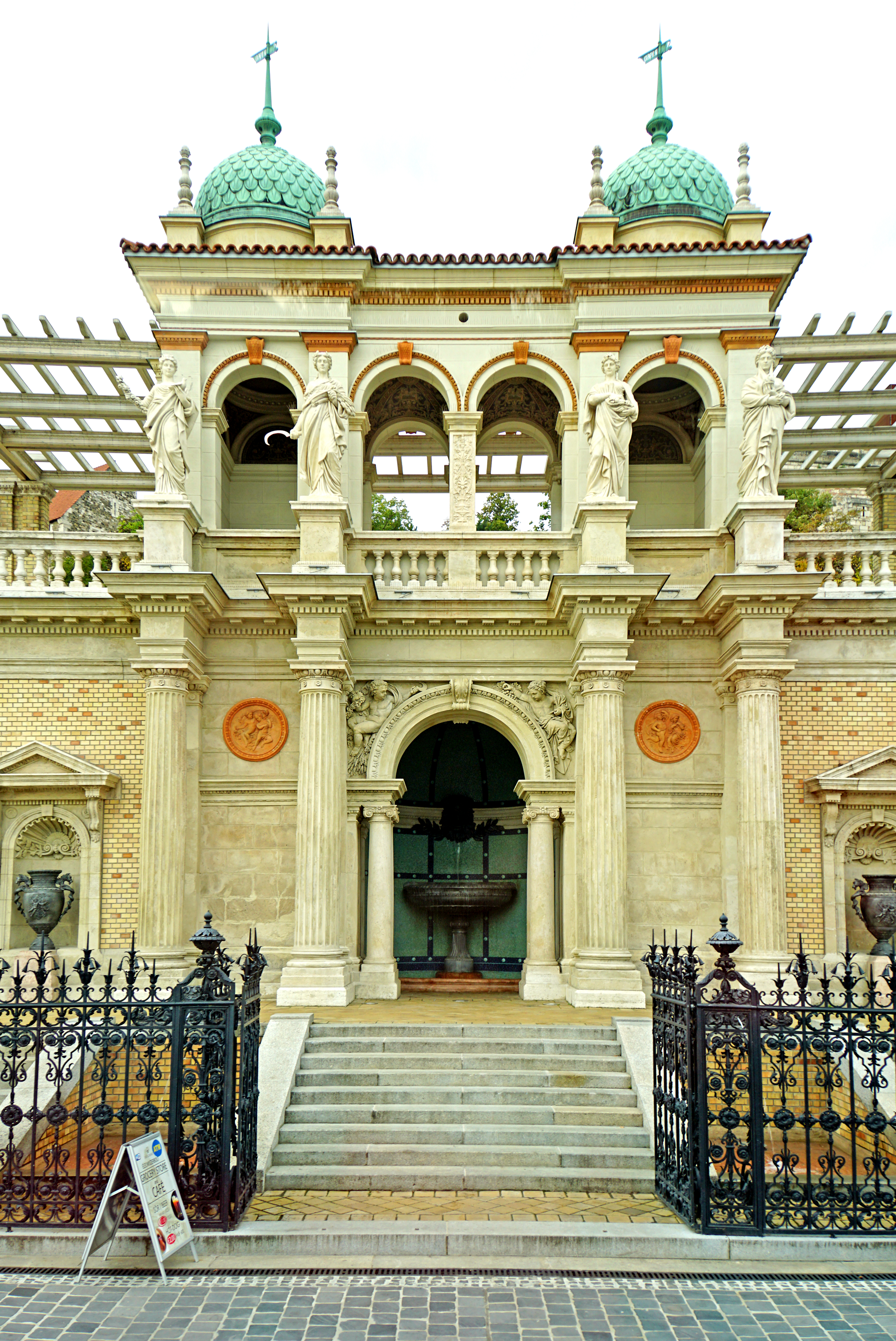 Hungary Várkert Bazár